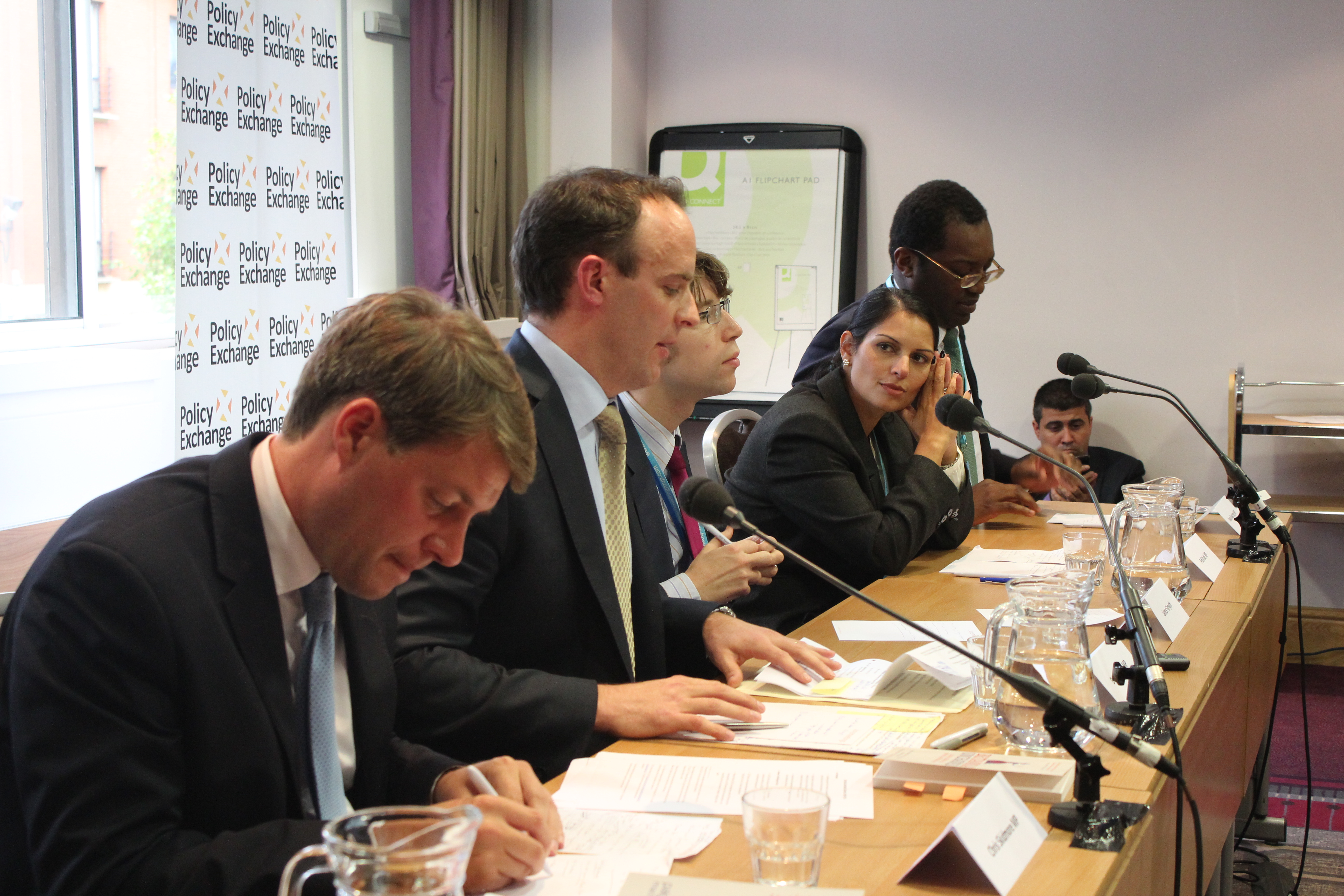 From left to right: Chris Skidmore MP, Dominic Raab MP, James Forsyth of The Spectator, Priti Patel MP and Kwasi Kwarteng MP